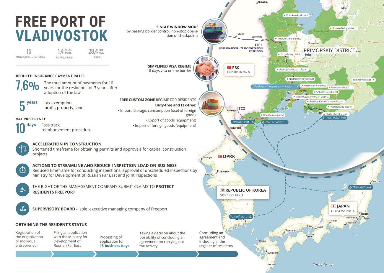 Descriptive diagram of the free port of Vladivostok.